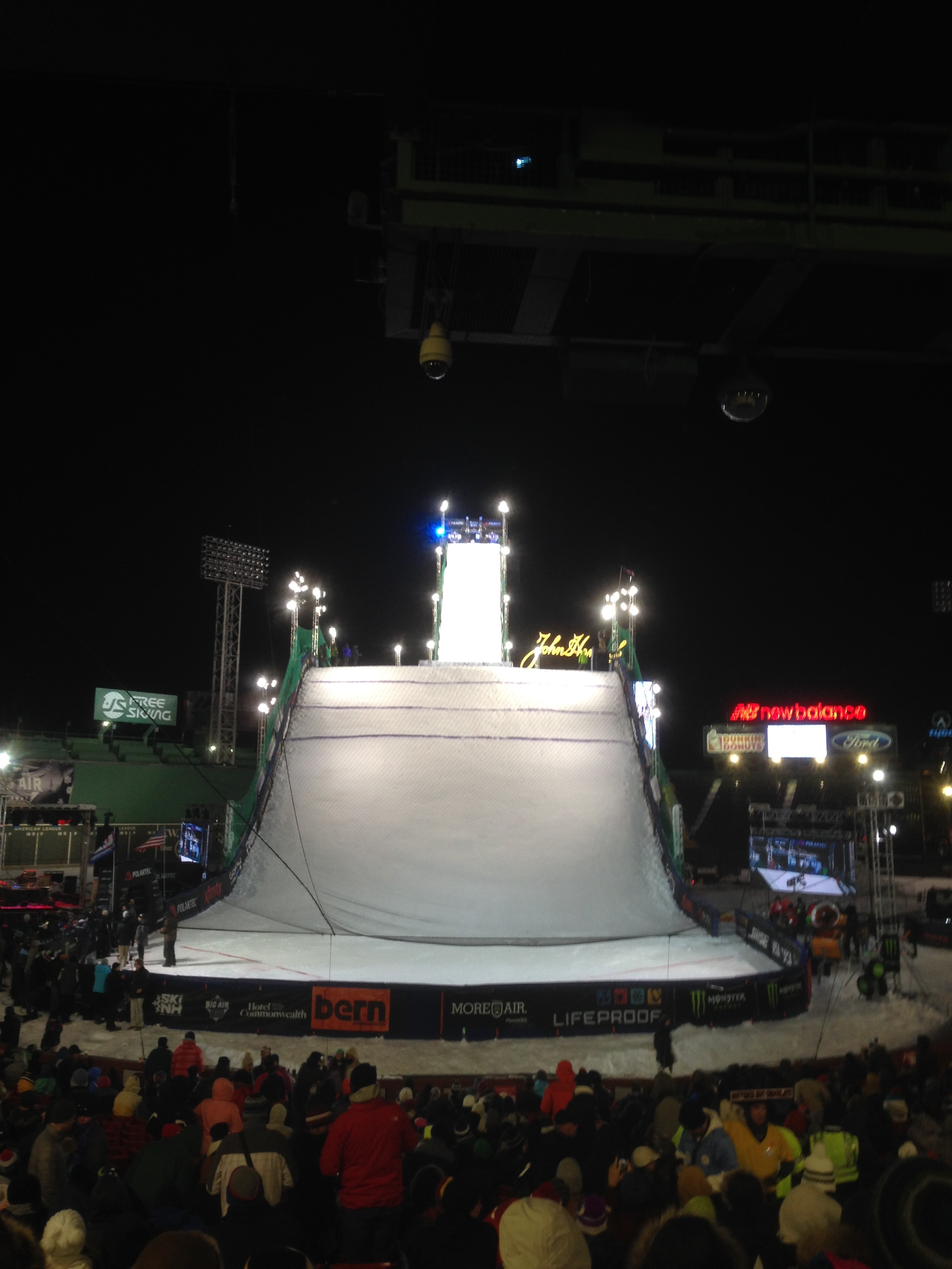 Inside image of the 150 foot Big Air Jump